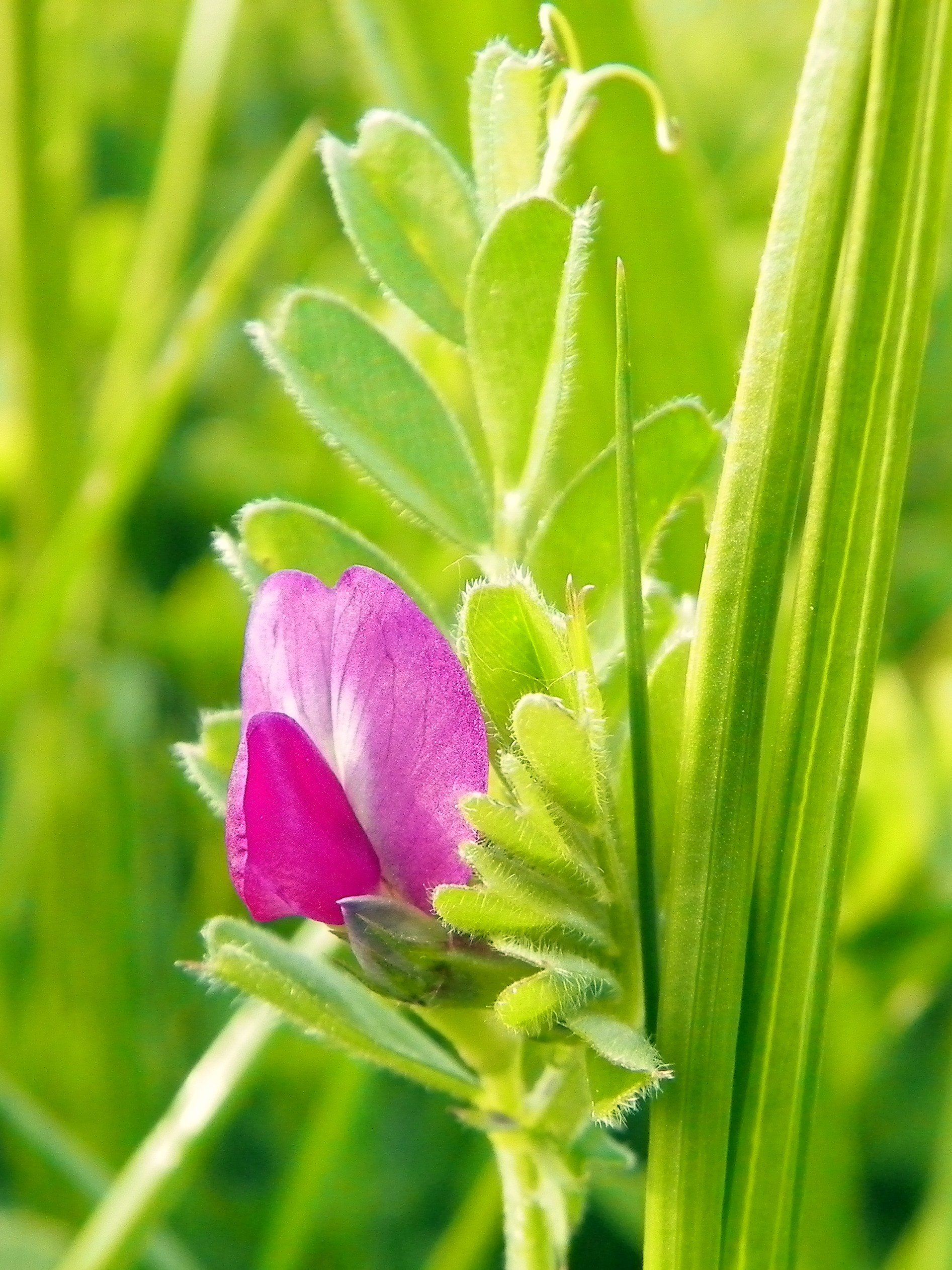 Common Vetch (Vicia sativa), Great Ashby District Park, Stevenage, 28 April 2011. Tiny flower.